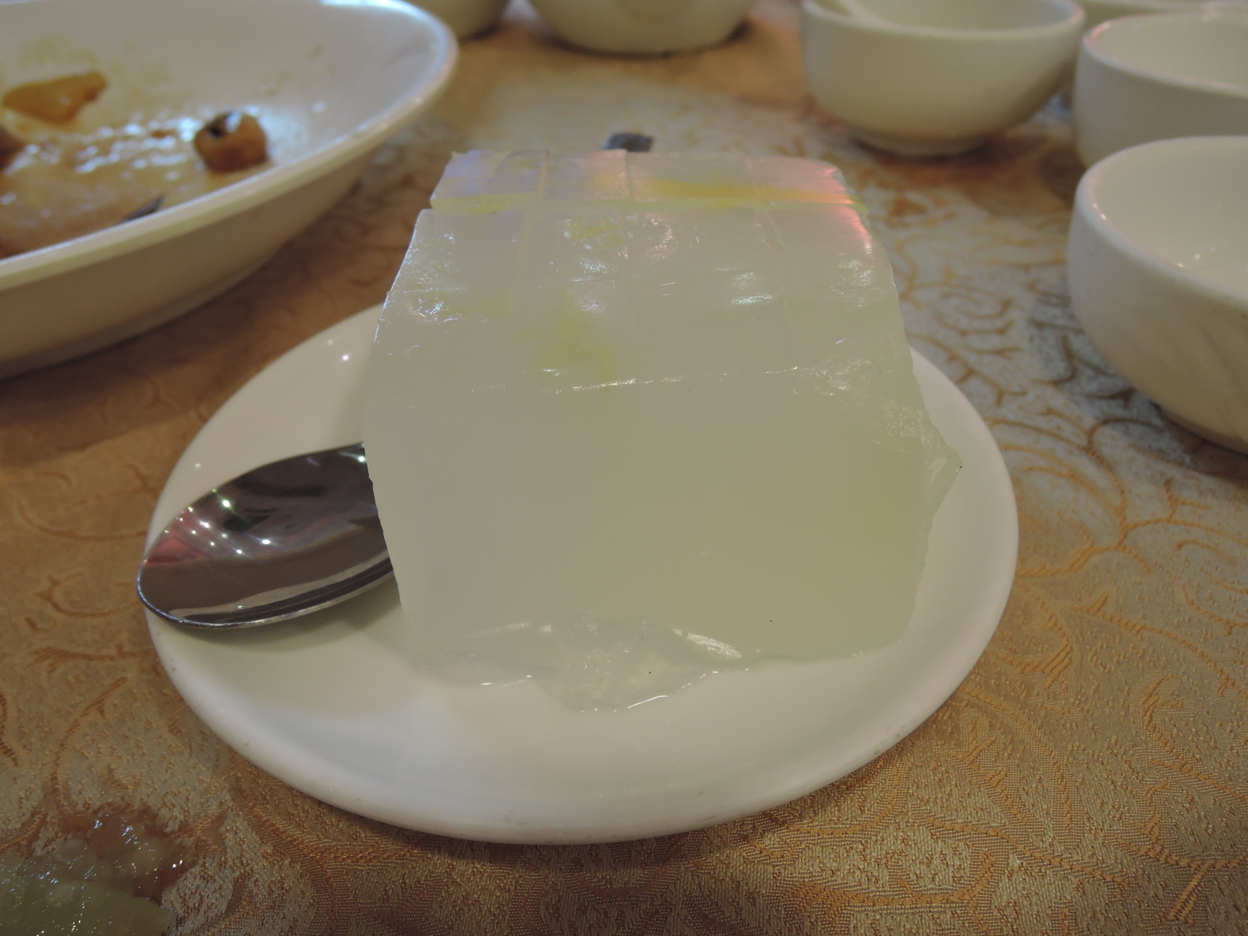 Tai Choi Gao in Chinese restaurant at Chaung chau